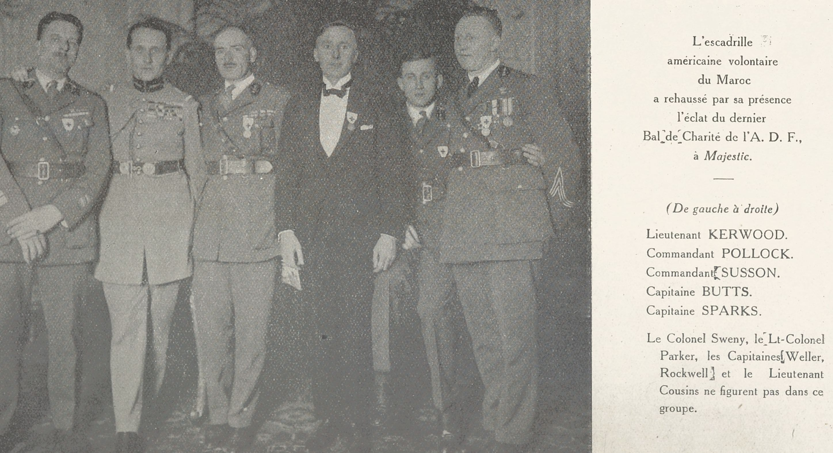 Photo of American members of the "Escadrille Cherifienne," which carried out the bombardment of Chefchaouen, at a charity ball for the Association des Dames Françaises held at Majestic. From left to right: Lieutenant Kerwood Commander Pollock Commander Susson Captain Butts Captain Sparks Not pictured: Lt. Colonel Sweeny Lt. Colonel Parker Captain Weller Captain Rockwell Lieutenant Cousins Photo taken by Studio Manuel Title : Bulletin de l'Association des dames françaises / Croix-rouge française Author : Association des dames françaises. Auteur du texte Publisher : (Paris) Publication date : 1926-01 Type : text Type : printed serial Language : french Language : français Description : janvier 1926 Description : 1926/01 (A36,N1). Rights : public domain Identifier : ark:/12148/bpt6k96881165 Source : Croix-Rouge française, 2016-68633 Relationship : Provenance : Bibliothèque nationale de France Date of online availability : 30/05/2016